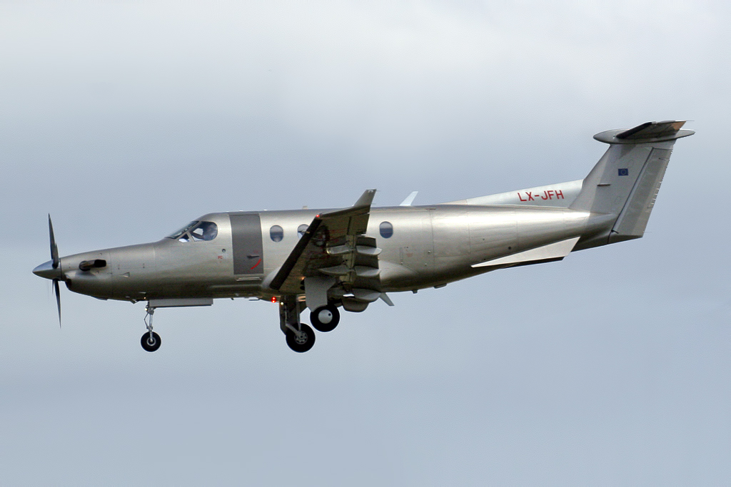 Landing at rwy 25R Barcelona BCN/LEBL